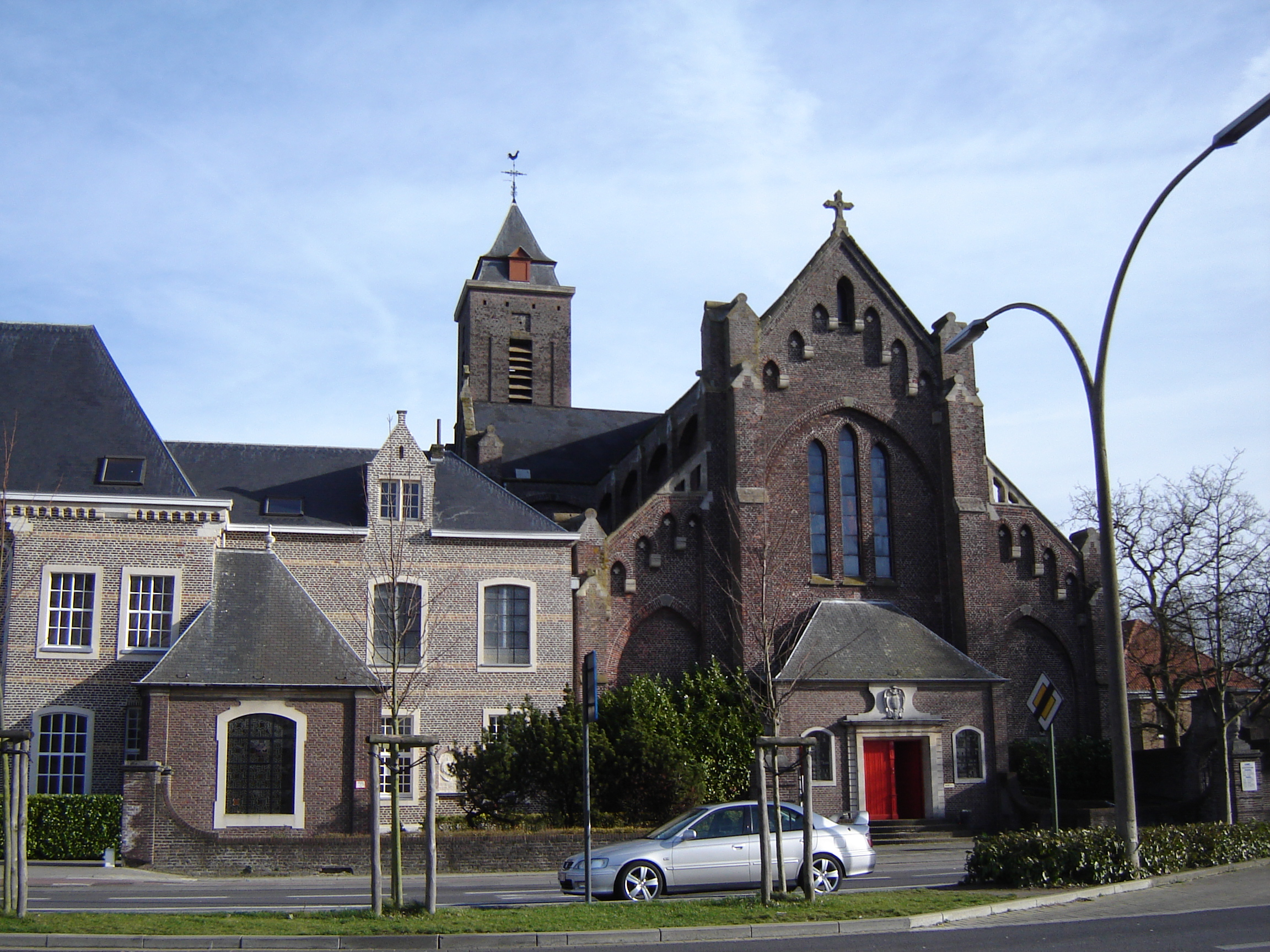 Church of the Sacred Heart and Saint Philip in Steenbrugge. Steenbrugge, Assebroek, Brugge, West Flanders, Belgium.